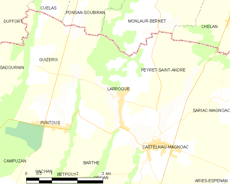 Map of French municipality